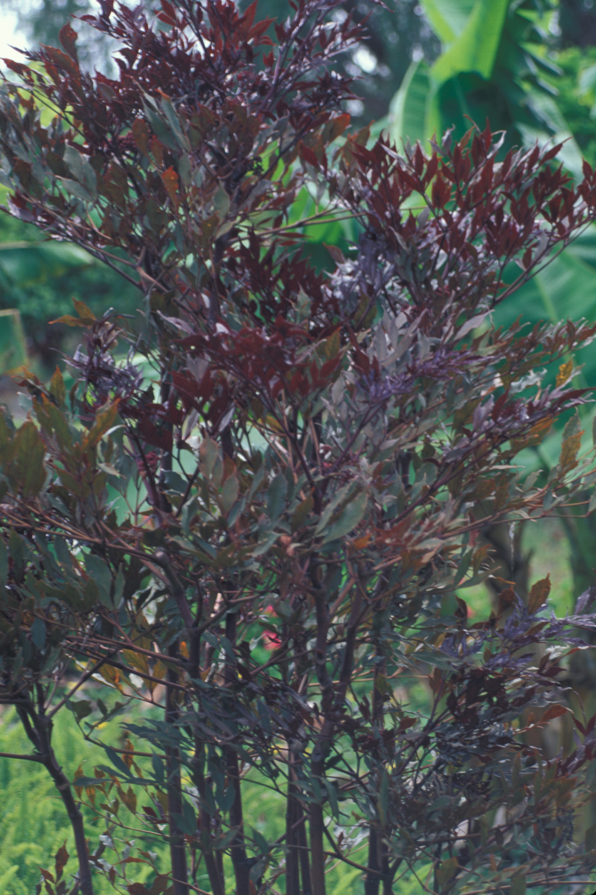 Leea guineensis (habit). Location: Maui, Enchanting Floral Gardens of Kula